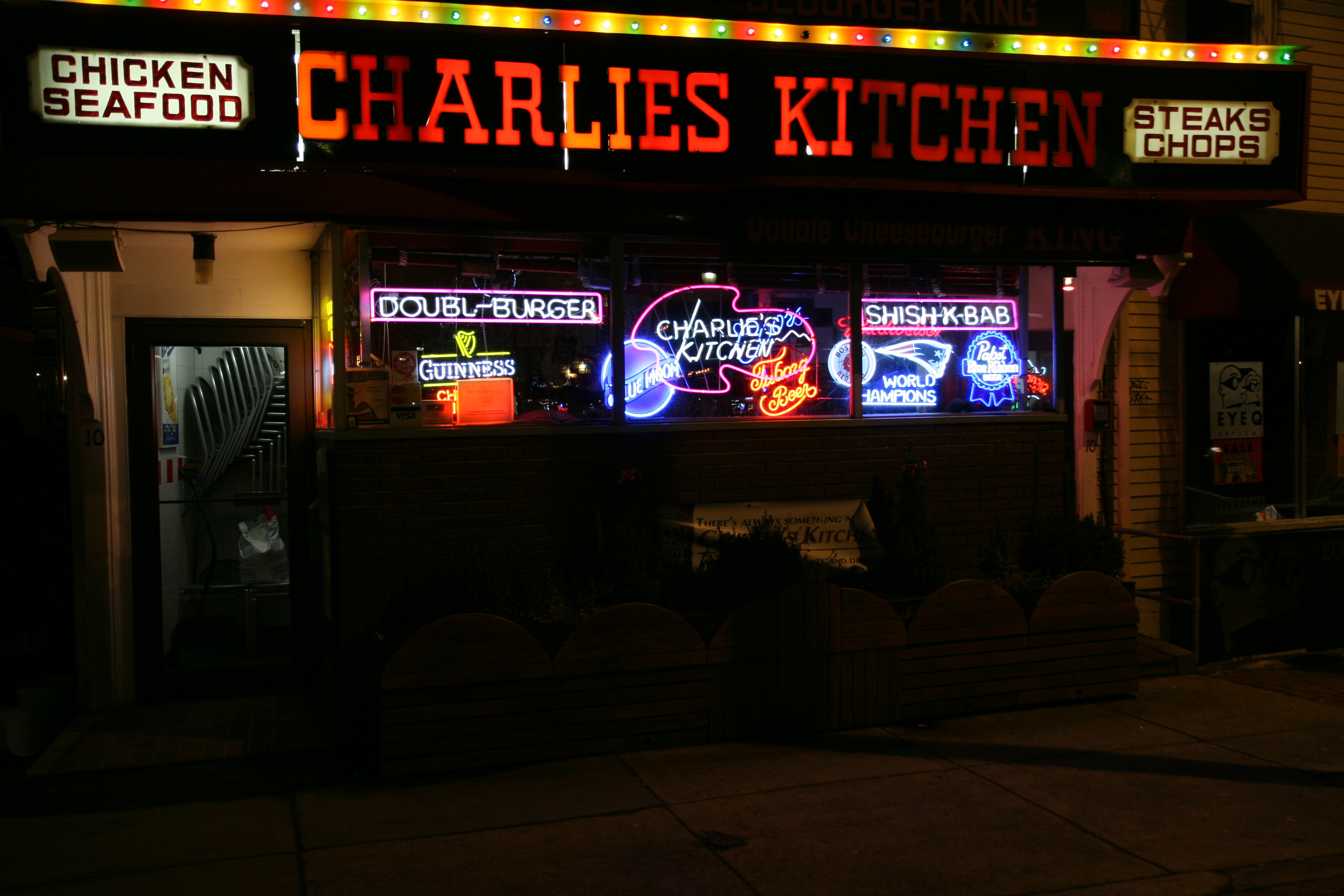 Charlies Kitchen near Harvard Square, Cambridge, Massachusetts